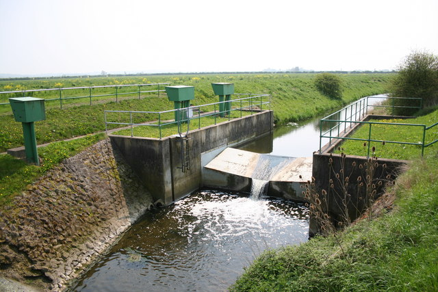 Brant Broughton Gauging Station. On the River Brant from Welbourn Road bridge